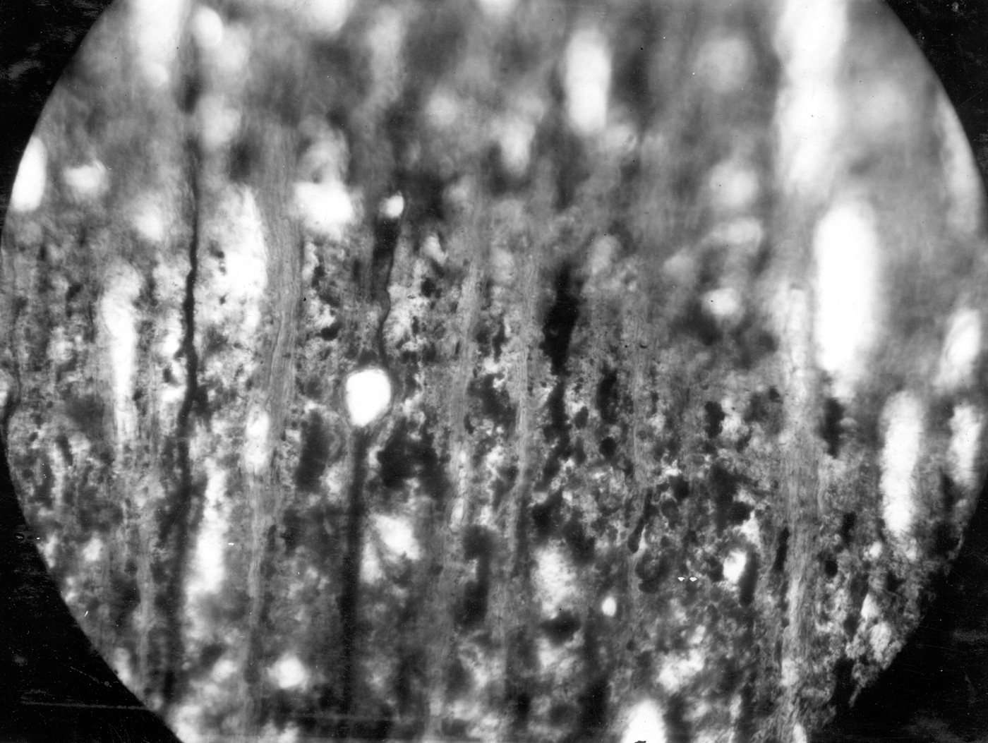 Photomicrograph showing detail of the varves in the rich oil shale specimen in Bradley photo 321; the organic laminae indicated by marks are themselves finely laminated. The mineral laminae contain considerable organic matter, but they are readily distinguished by their coarser grain and greater thickness. Enlarged 320 diameters. Garfield County, Colorado. 1927.